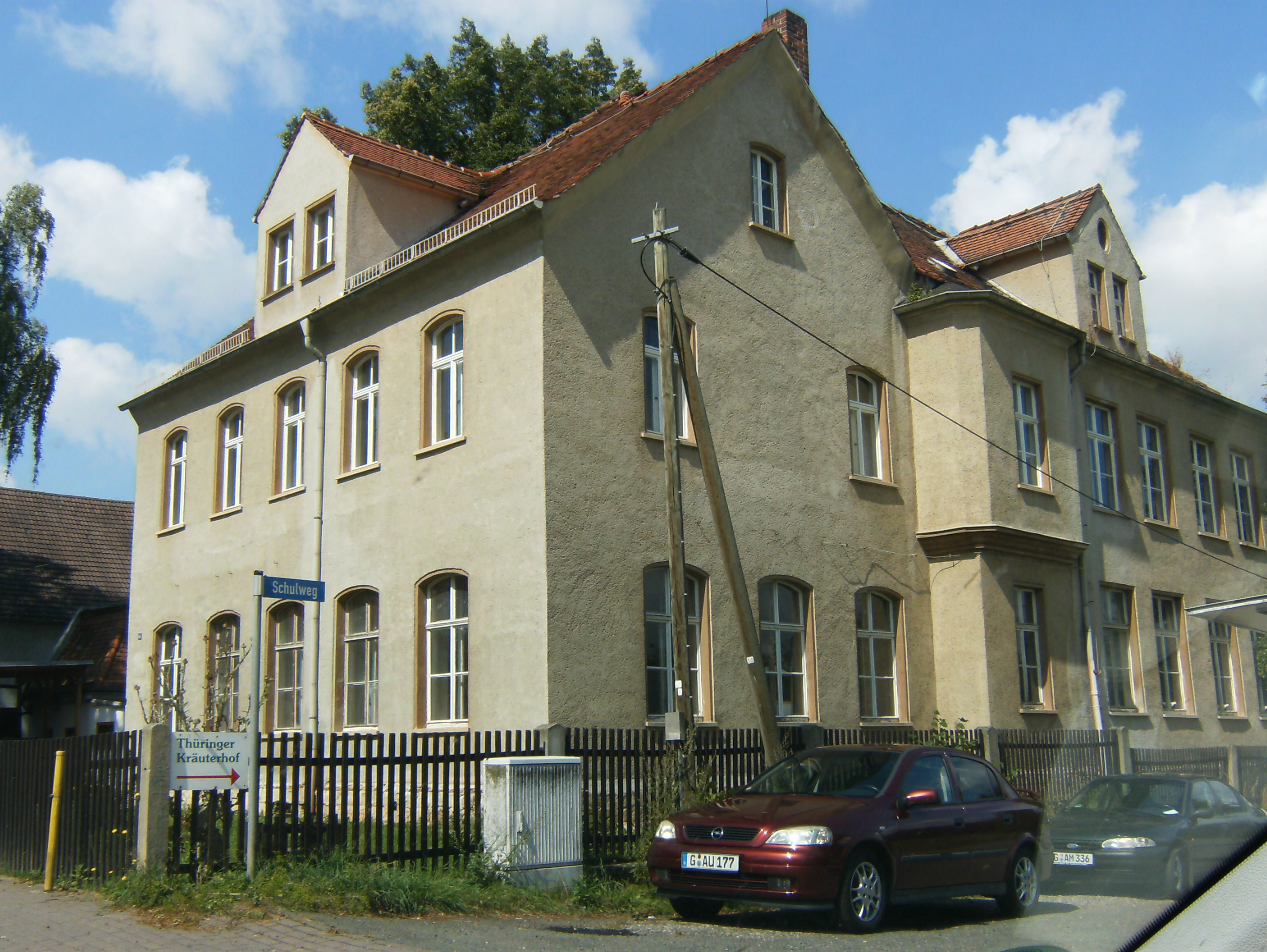 Gera Windischenbernsdorf, former school builing.